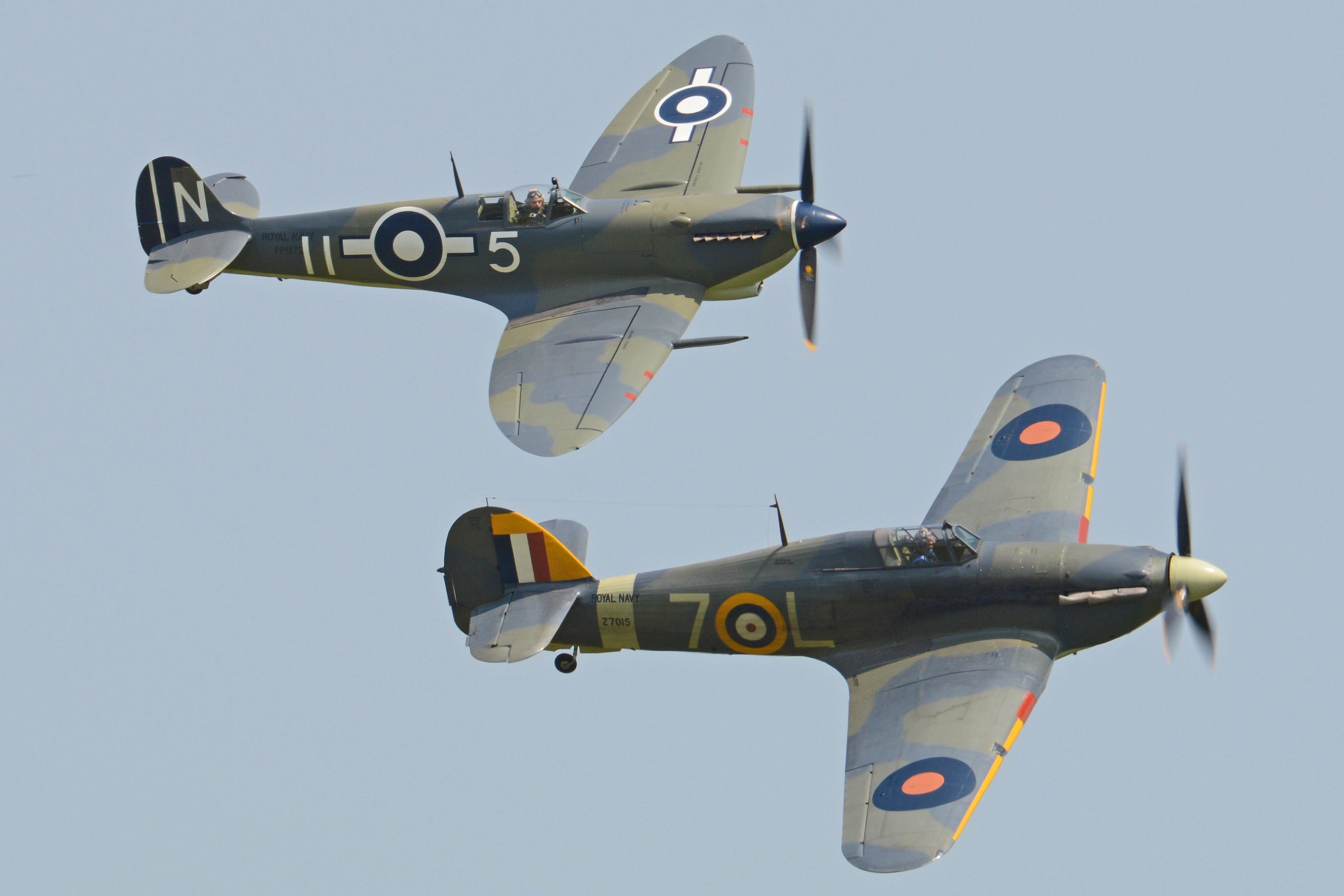 A WW2 Royal Navy combination which has been long awaited! Leading is Sea Hurricane Ib 'Z7015 / 7-L' (G-BKTH), part of the Shuttleworth Collection. Trailing is Seafire LF.IIIc 'PP972 / N / 11-5' (G-BUAR), based at Sywell. Seen together at the 'Fly Navy' Airshow, Old Warden, Bedfordshire, UK. 05-06-2016